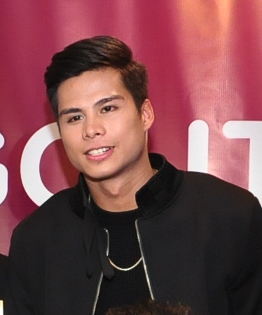 Seklusyon stars Neil Ryan Sese, Ronnie Alonte, and Dominique Roque (to name a few) and directed by Erik Matti. © Rodel Flordeliz (